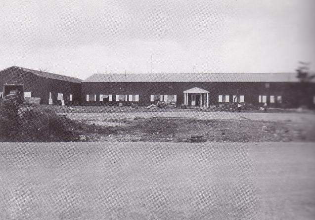 Building of Okinawa Civil Government